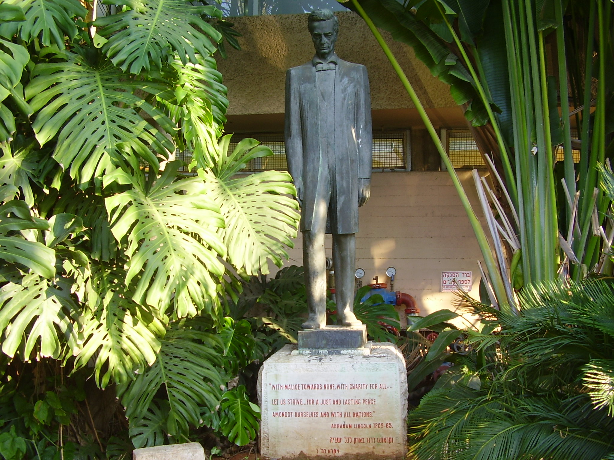 abraham lincoln memorial in ramat gan, israel פסל של אברהם לינקולן ברמת גן